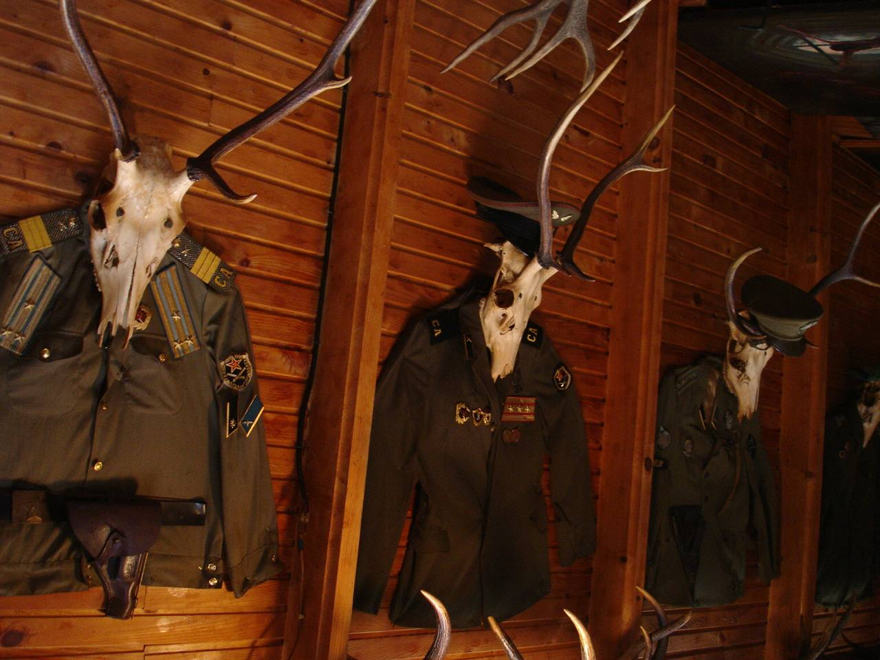 Siekierezada Pub. Cisna.